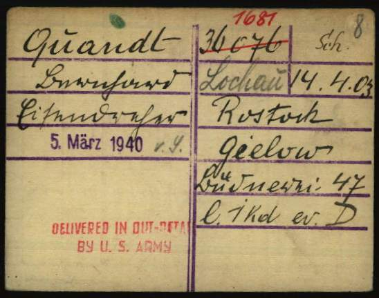 Registration card of Bernhard Quandt as a prisoner at Dachau Nazi Concentration Camp. Red stamp means he was liberated by the U. S. Army from a Dachau sub-camp (out-detail).